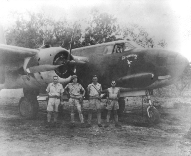 Squadron Leader K R McDonald (second from left) and his crew in front of their Boston Bomber aircraft "Retribution" of No. 22 Squadron RAAF. Second from the right is 420247 Sergeant Charles Roland 'Chick' Napier who was killed during operations over Buna on 26 November 1942.